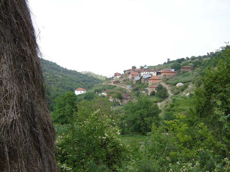 Village of Malčište in the Republic of Macedonia.